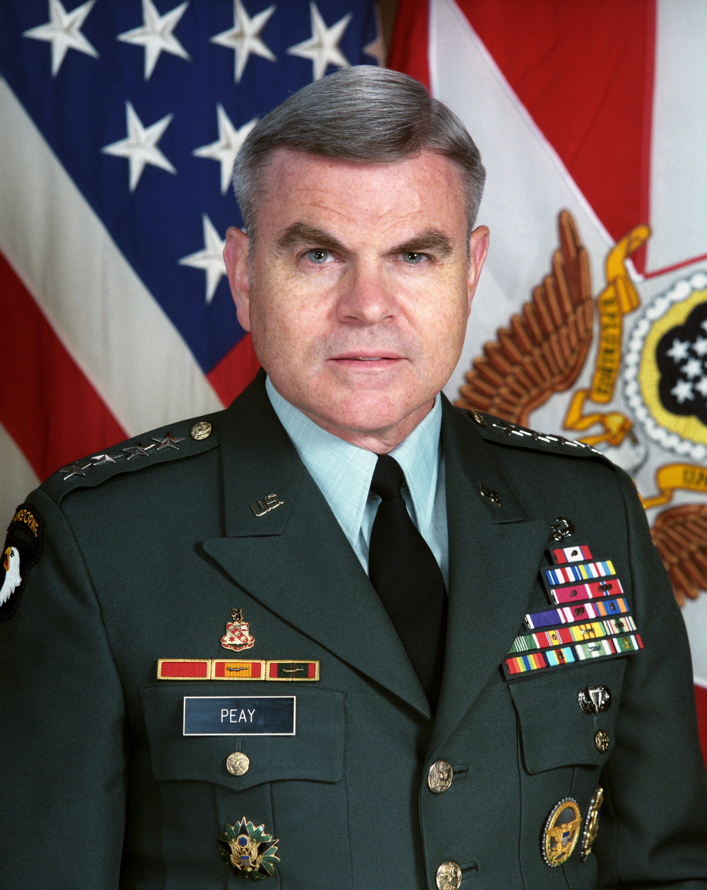 J.H. Binford Peay III, Vice Chief of Staff official portrait